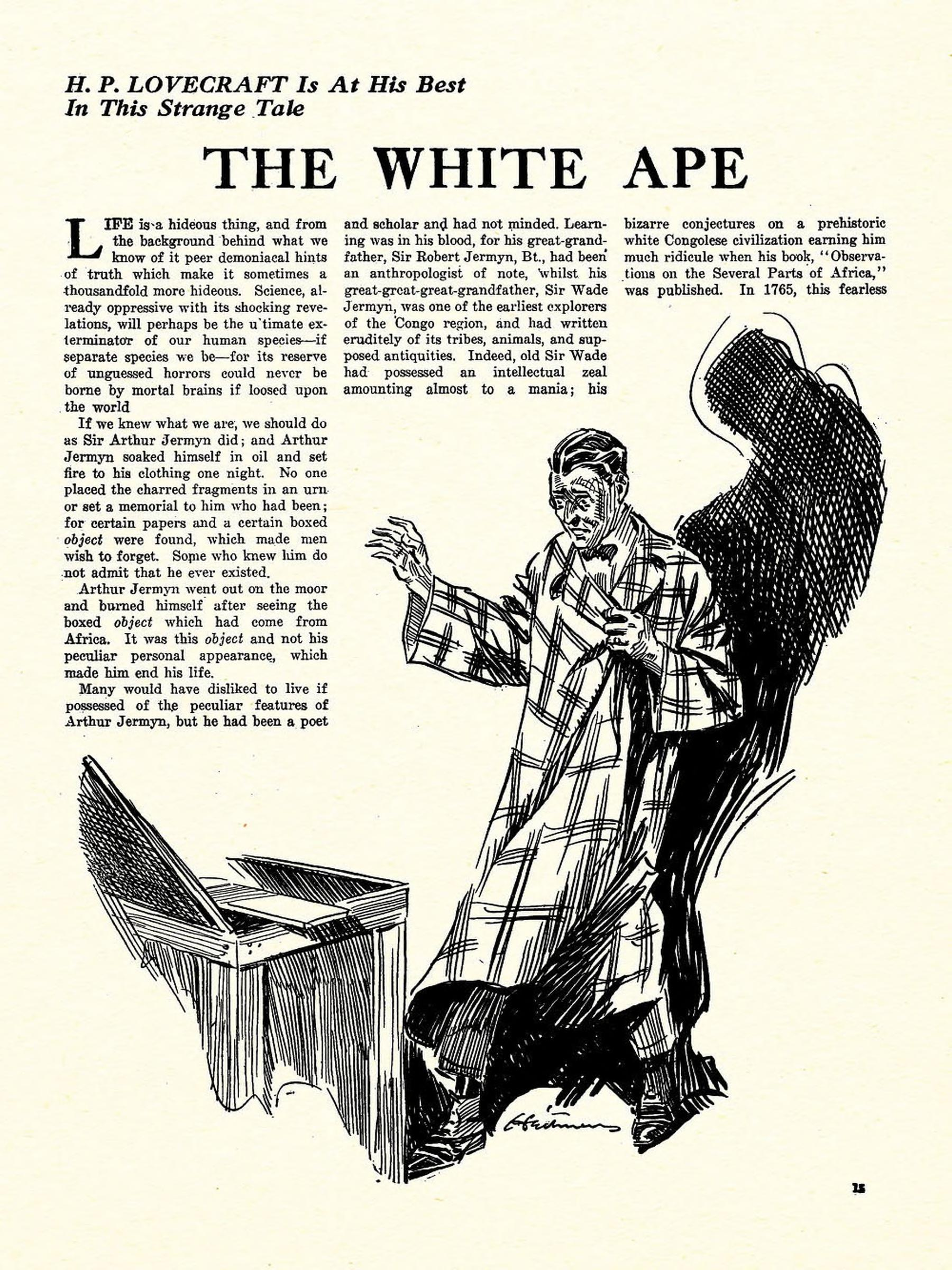 Cover page spread of H. P. Lovecraft's Facts Concerning the Late Arthur Jermyn and His Family as it appeared in Weird Tales April, 1924.